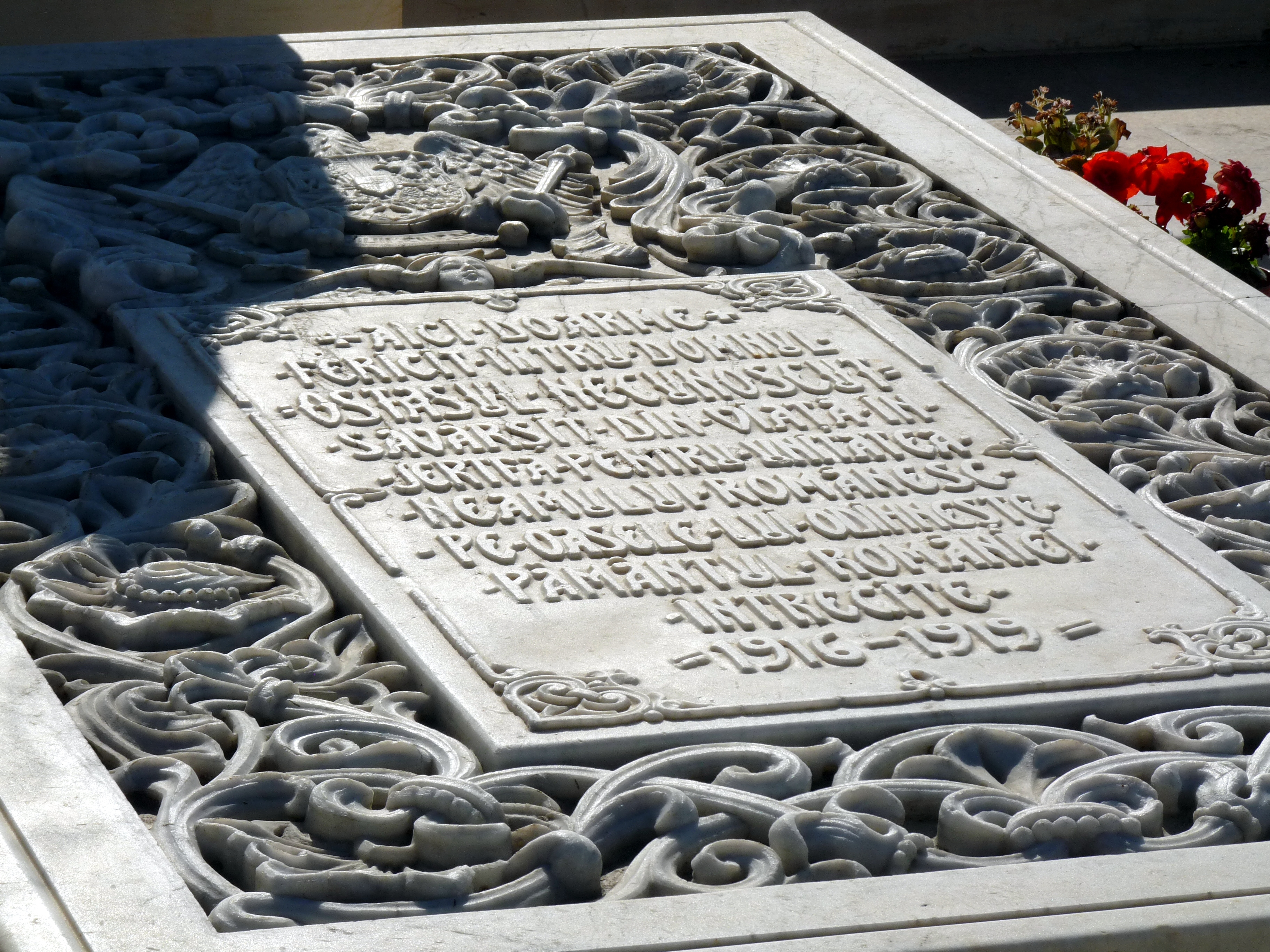 The cover of the Tomb of the Unknown Soldier in Bucharest.